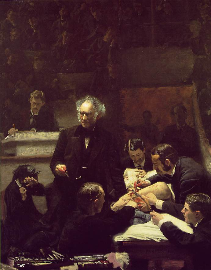 Label from Philadelphia Museum of Art: Dr. Samuel D. Gross appears in the surgical amphitheater at Jefferson Medical College, lit by the skylight overhead. Five doctors (one of whom is obscured by Dr. Gross) attend to the young patient, whose cut left thigh, bony buttocks, and sock-clad feet are all that is visible to the viewer. Chief of Clinic Dr. James M. Barton bends over the patient, probing the incision, while junior assistant Dr. Charles S. Briggs grips the patient's legs and Dr. Daniel M. Appel keeps the incision open with a retractor. The anesthetist (Dr. W. Joseph Hearn) holds a folded napkin soaked with chloroform over the patient's face, while the clinic clerk (Dr. Franklin West) records the proceedings. A woman at the left, traditionally identified as the patient's mother, cringes and shields her eyes, unable to look. Confident of the outcome of the operation, Dr. Gross calmly and majestically turns to address his students, including the intent figure of Thomas Eakins, who is seated at the right edge of the canvas.